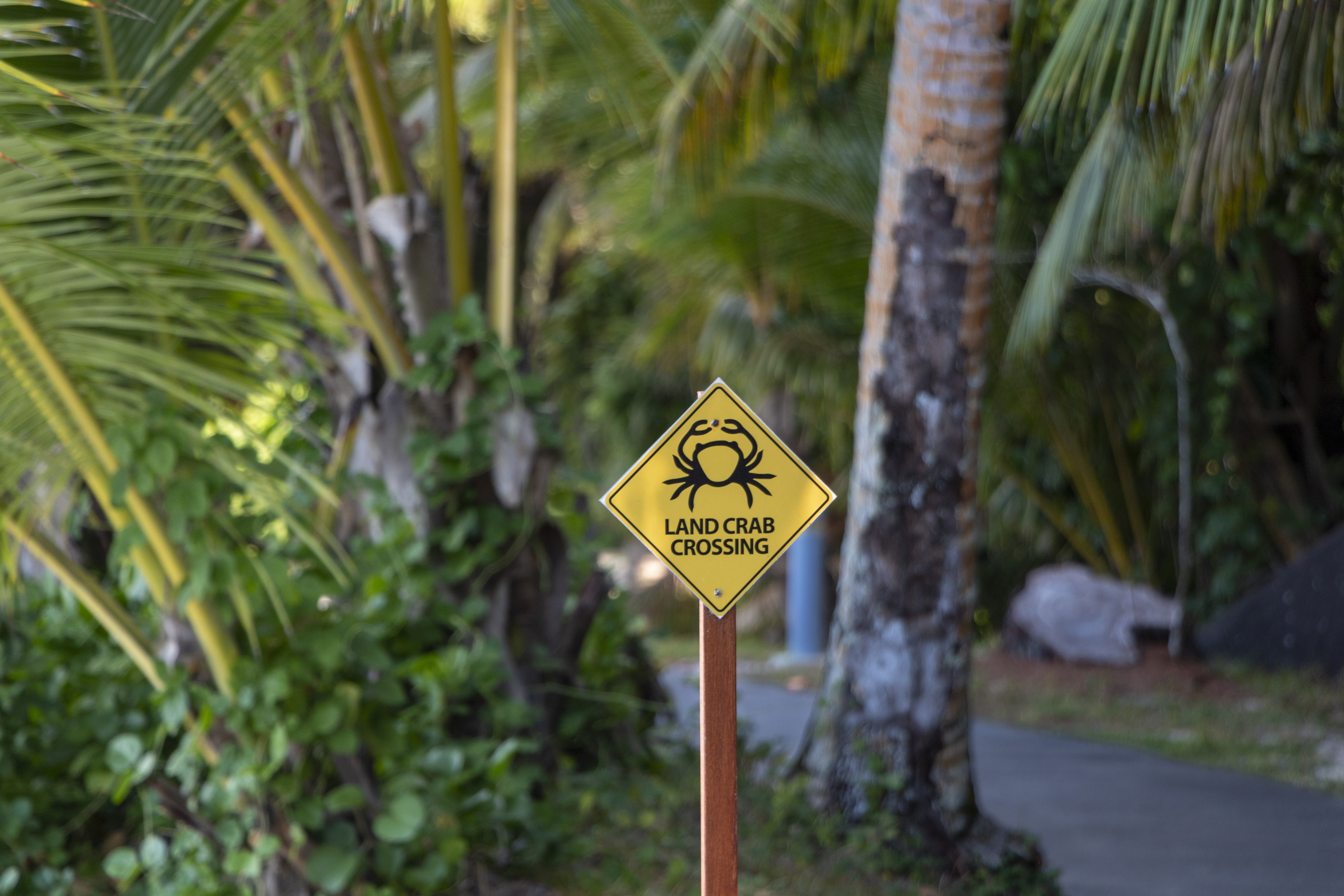 As they are found so many, you must watch your way while cycling or walking and let land crab cross safely. This road sign was in silhouette Island -Seychelles This is an image with the theme "Africa on the Move or Transport" from: Seychelles